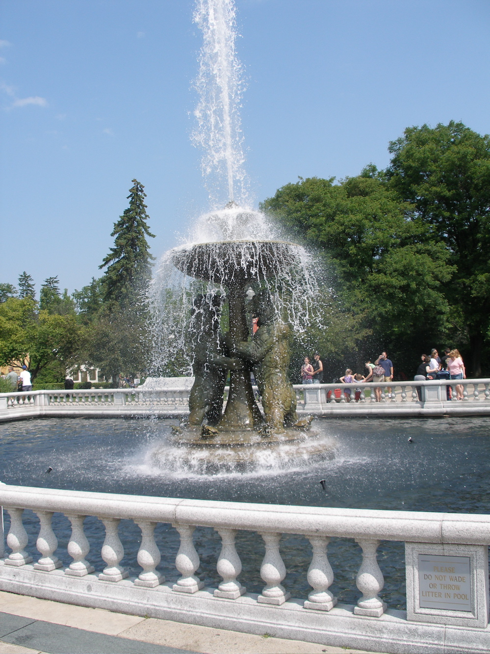 Bear fountain at the Detroit Zoo. June 2007